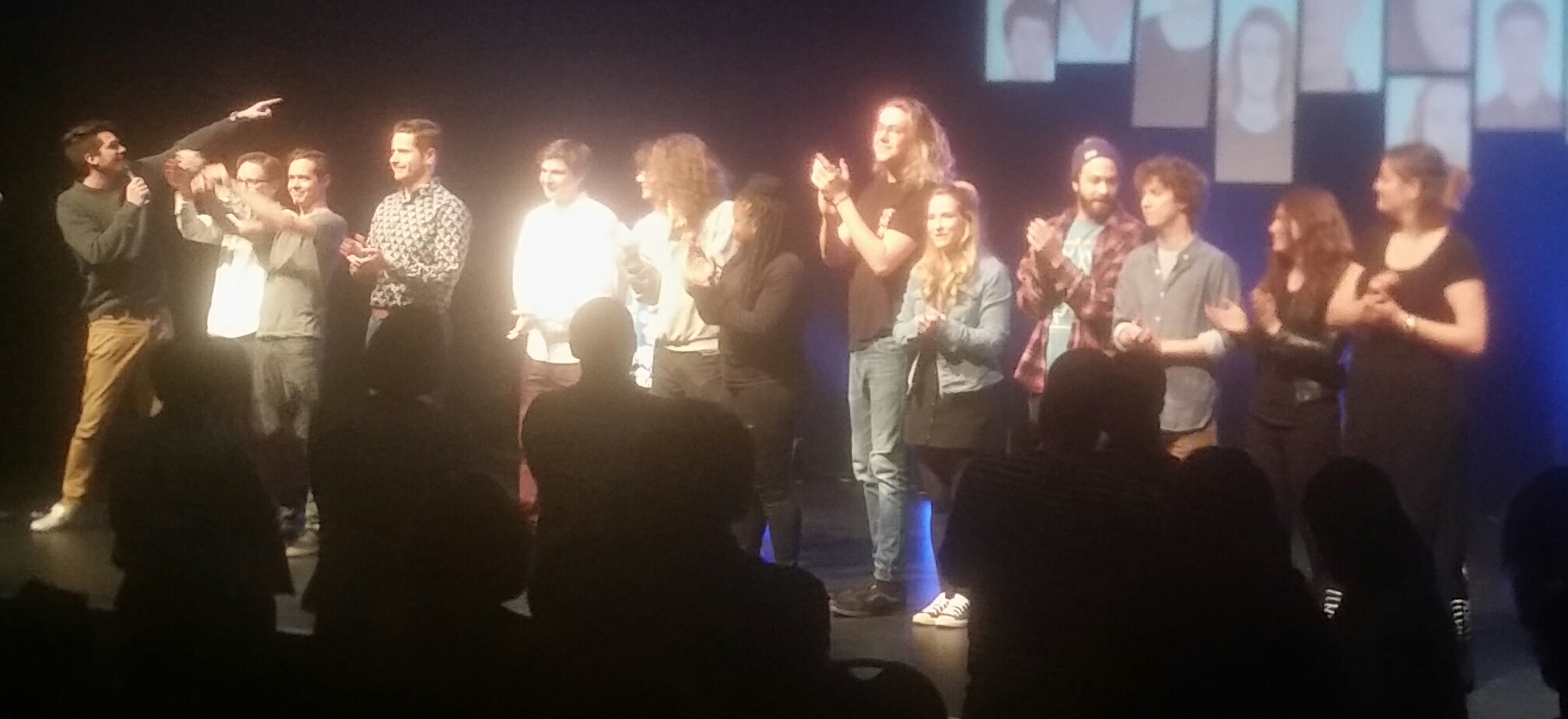 Dhanaé Audet-Beaulieu and his other comedians photographed in Montréal , Québec, Canada at the salle Pauline-Julien.